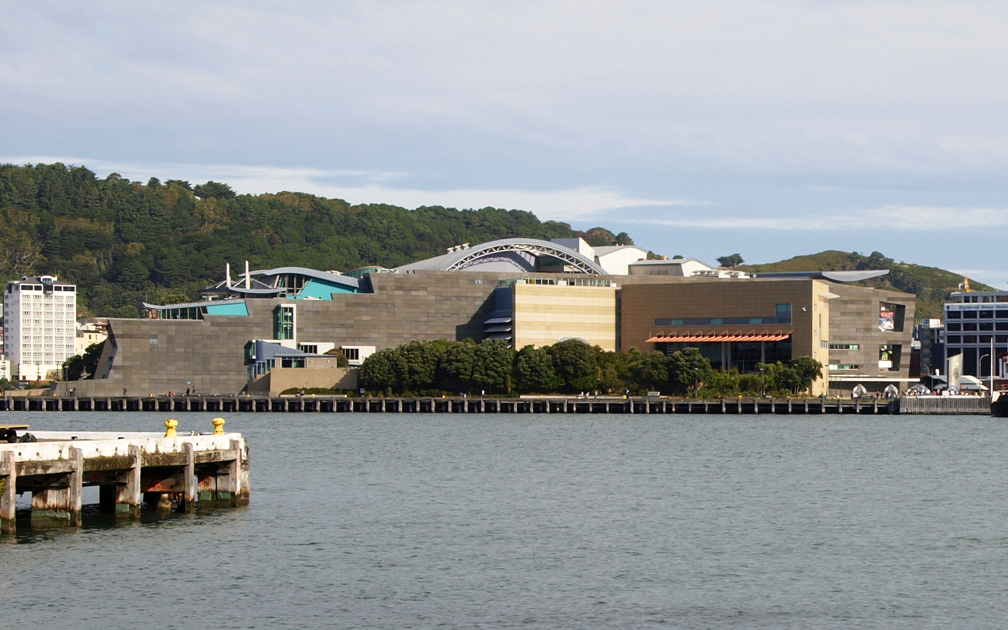 Museum of New Zealand Te Papa Tongarewa, Wellington, New Zealand (2010) (harbour side)